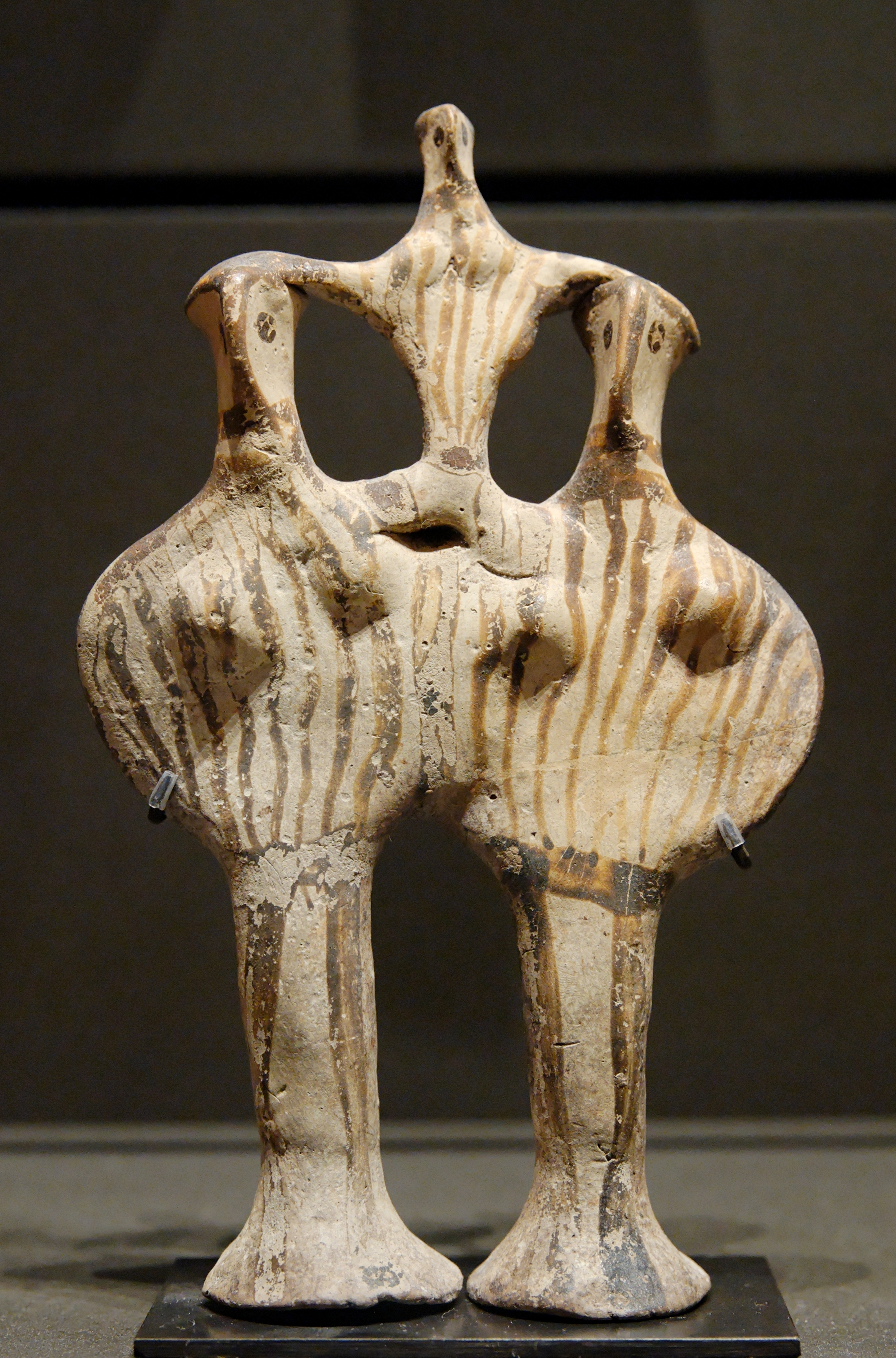 So-called "Phi" figurines (because they look like the Greek letter Φ) from Mycenae. Terracotta, Late Mycenaean IIIA2–IIIA3 (13th century BC).